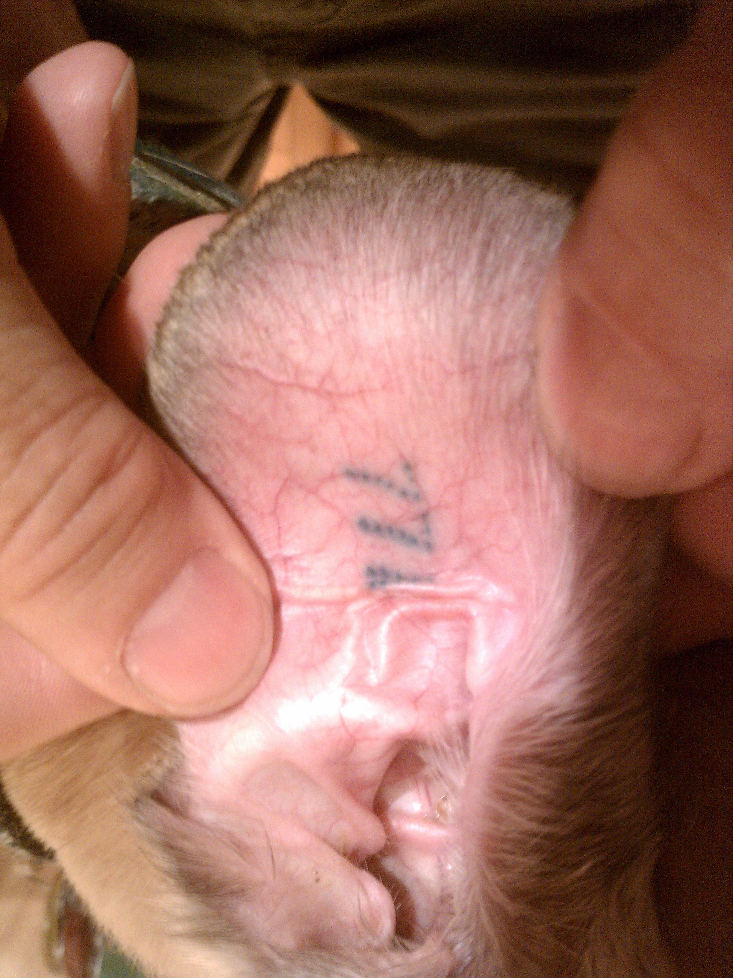 Tattoo on the inside of the right ear of a retired racing greyhound. First two characters - "77" - are year and month of birth (7/07). Third character, partially cut off here, is an 'A', showing that this dog was the first of his litter to be tattooed.